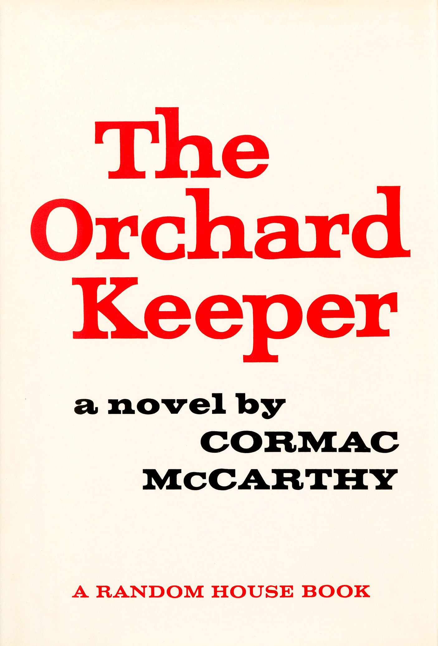 Cover of The Orchard Keeper, the debut novel by American author Cormac McCarthy.